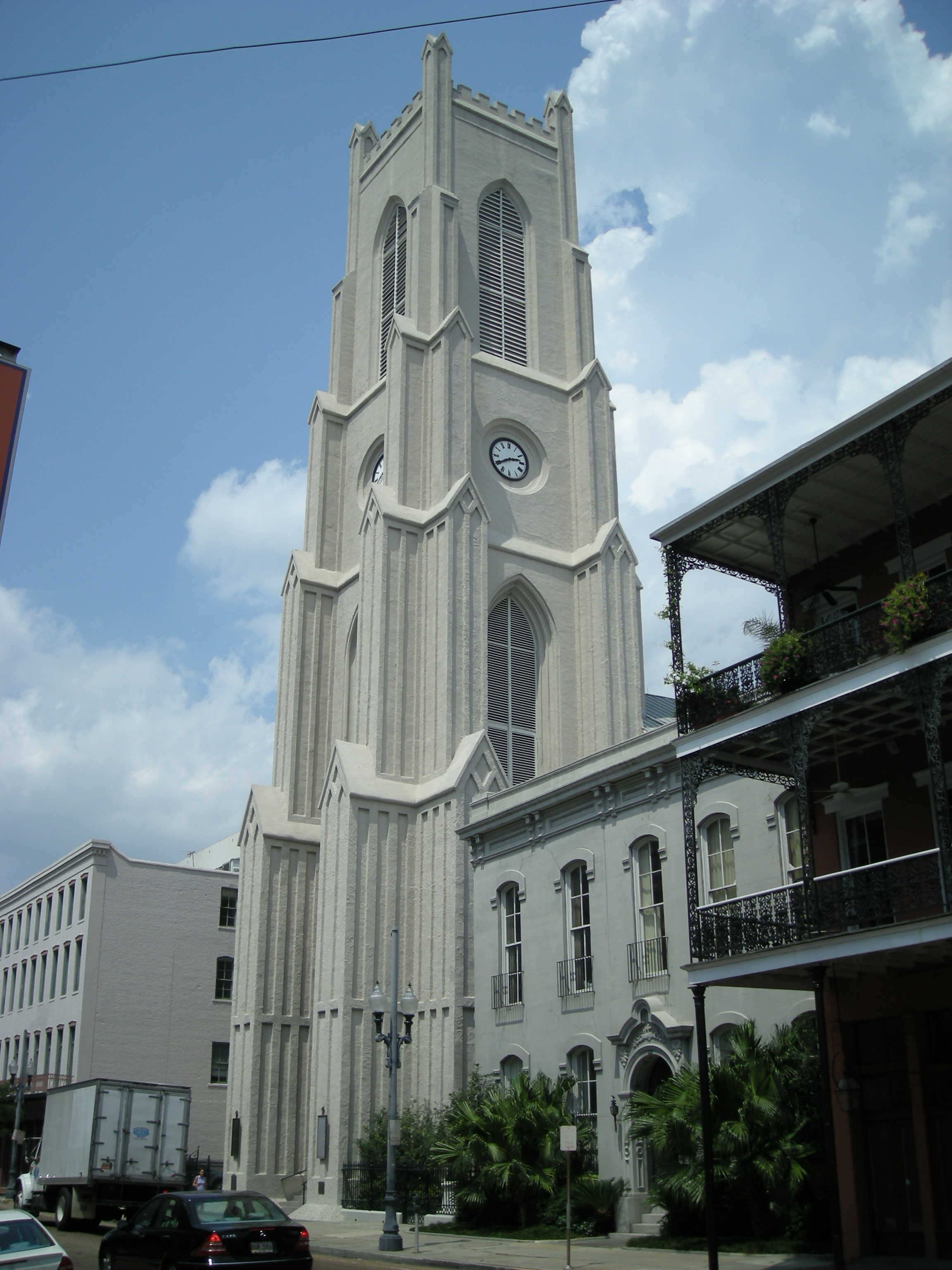 St. Patrick's Church, 724 Camp Street, New Orleans. Gray building to the right is the parish rectory. Photo taken 14 June 2007.